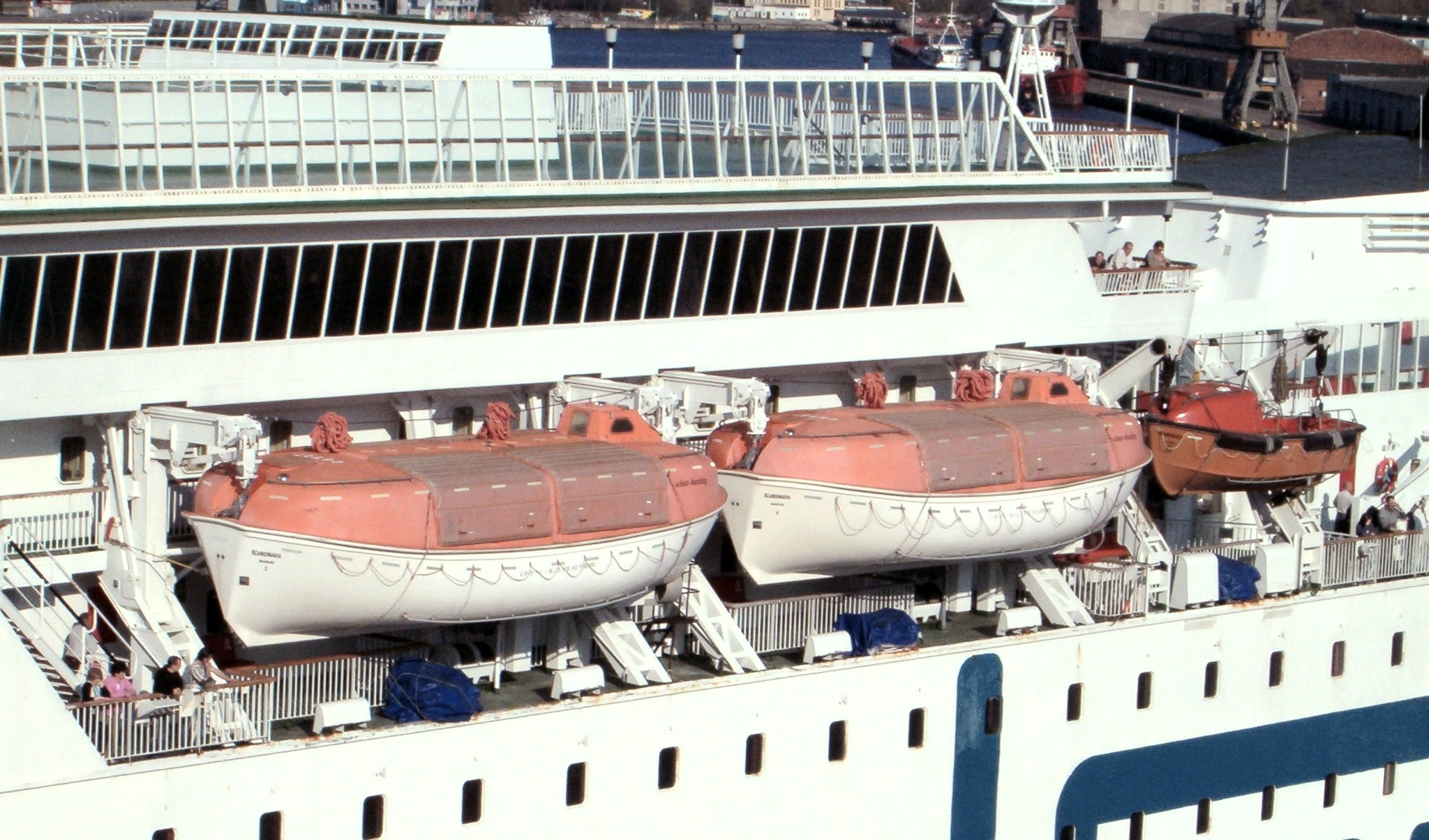 Lifeboats of FS Scandinavia (Polferries)